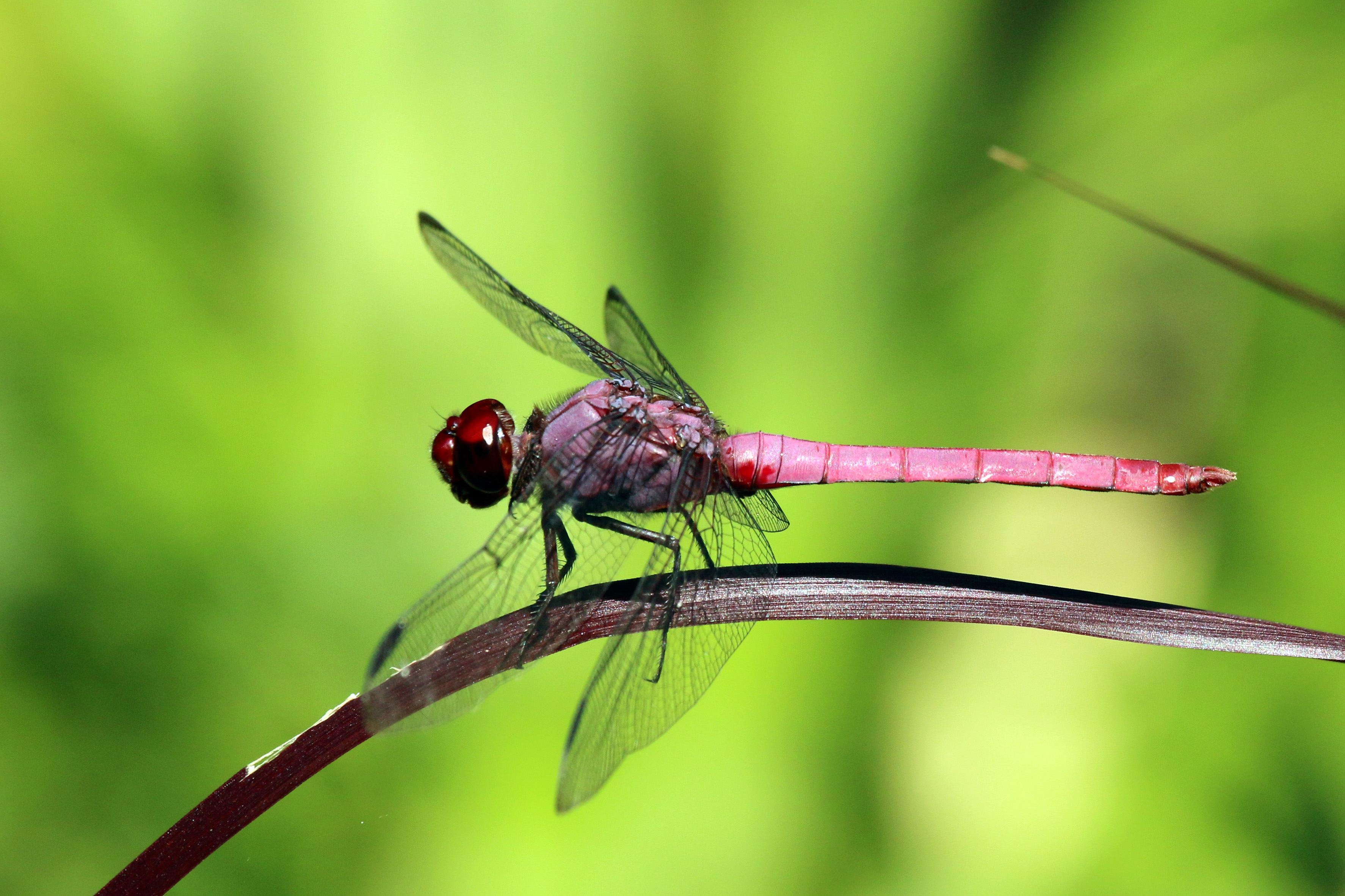 Carmine skimmer dragonfly (Orthemis discolor) male, Jamaica